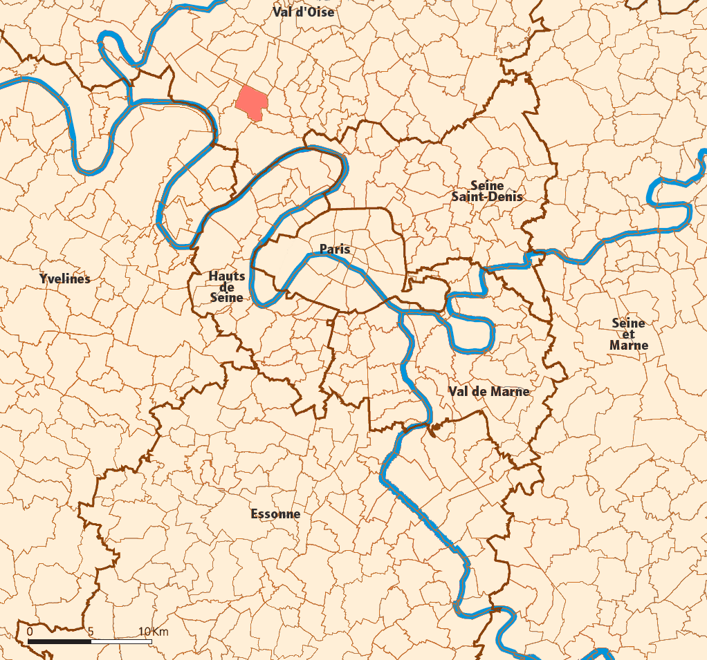 Created map myself.